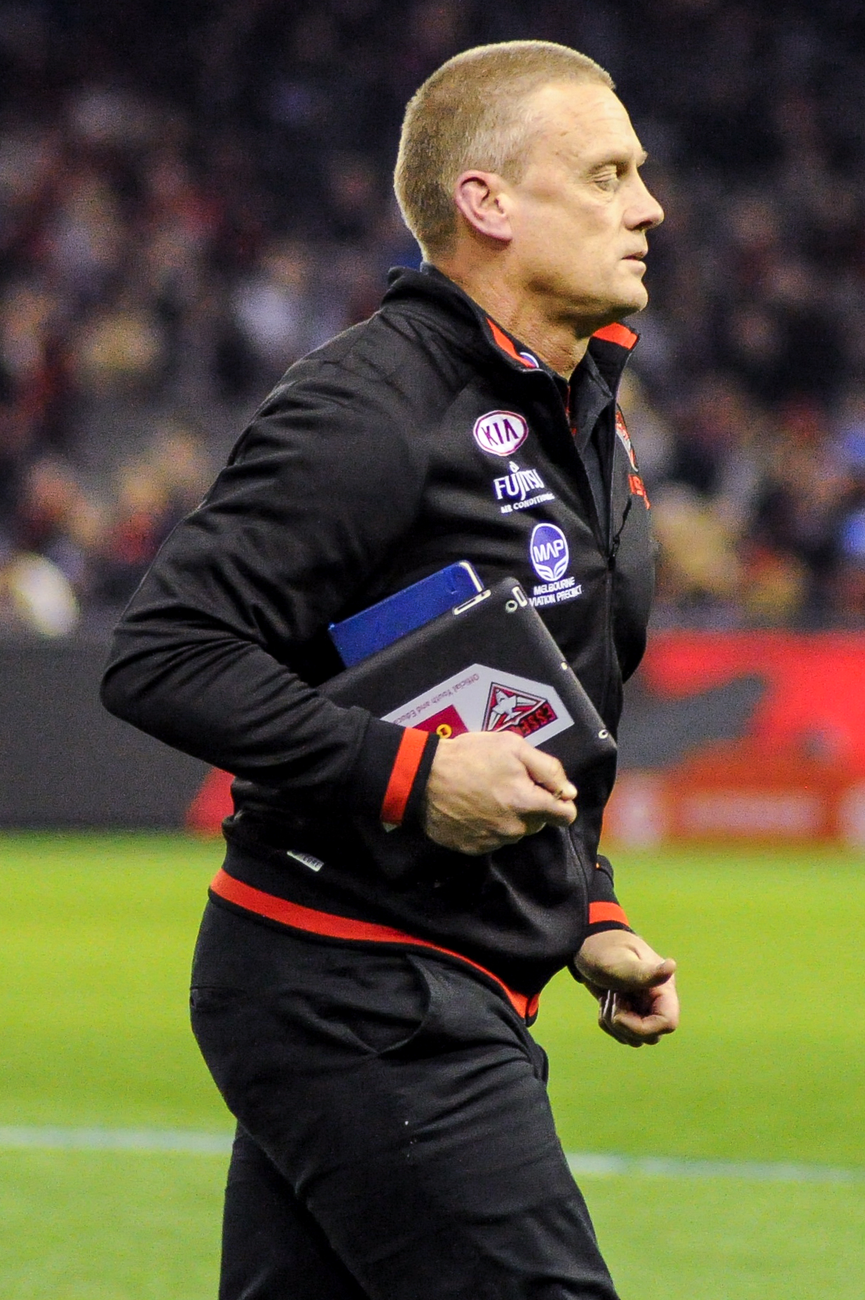 Guy McKenna during the AFL round twelve match between Essendon and Port Adelaide on 10 June 2017 at Etihad Stadium in Melbourne, Victoria.